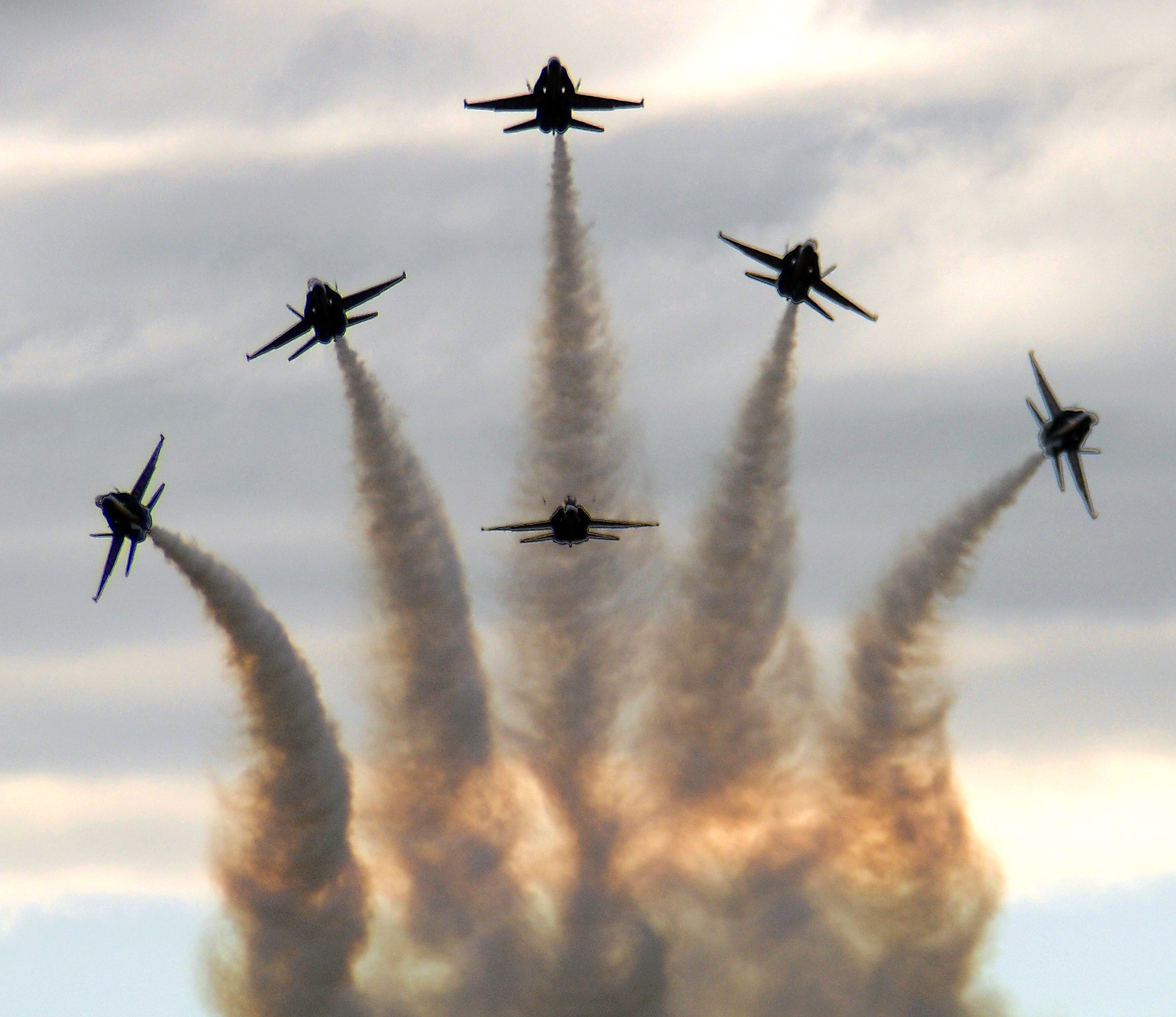 BRUNSWICK, Maine (Sept. 7, 2008) The U.S. Navy flight demonstration team The Blue Angels perform for more than 100,000 guests during the Great State of Maine Air Show. The air show brought performances by the Blue Angels, The U.S. Army Golden Knights parachute team, and a wide variety of static displays and interactive exhibits. The show drew more than 150,000 people over three days. This will be the final Navy-sponsored air show at this location before NAS Brunswick is scheduled close in 2011 by the Base Realignment Commission. (U.S. Navy photo by Mass Communication Specialist 1st Class Roger S. Duncan/Released)